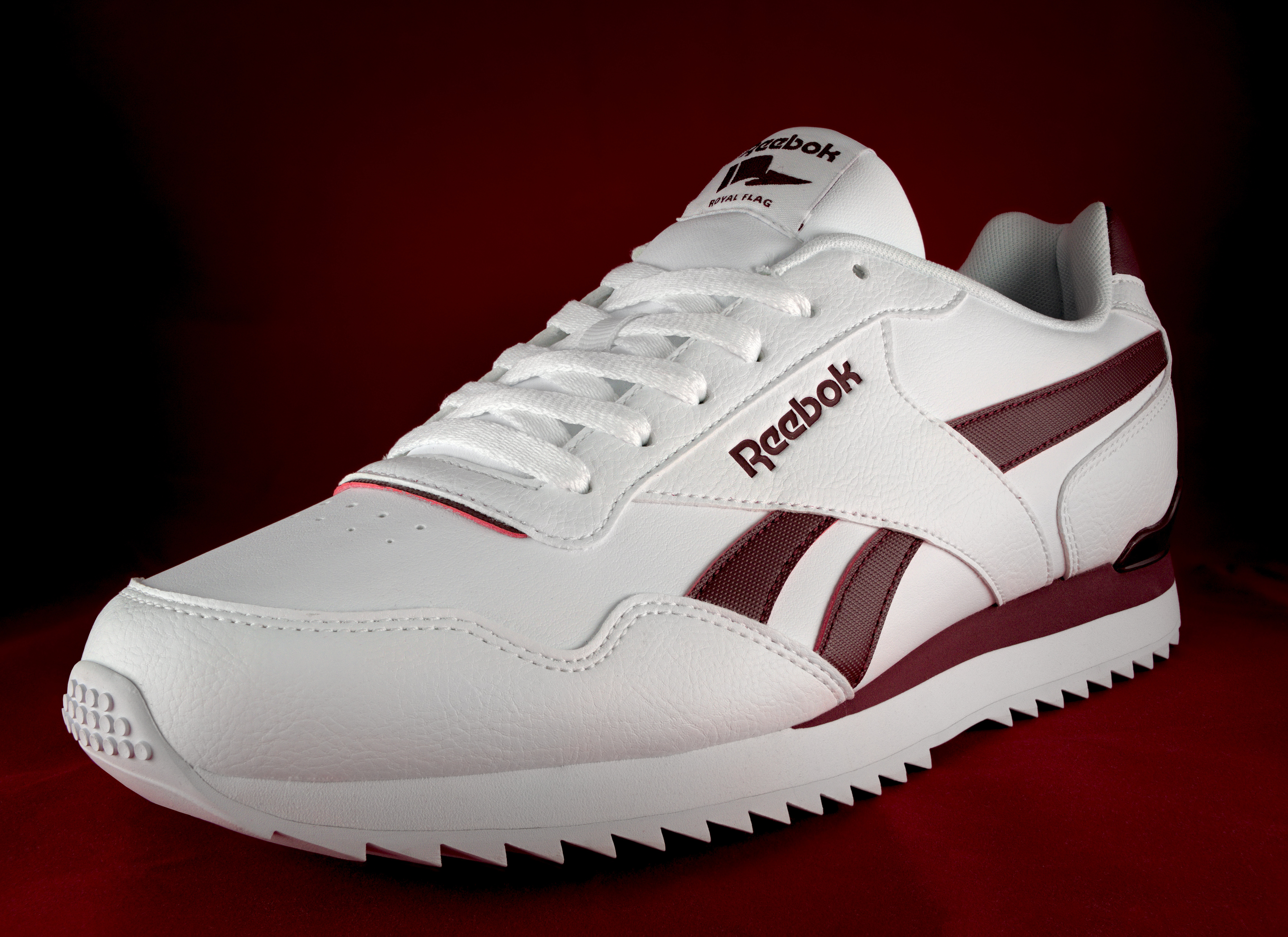 Reebok Royal Glide Ripple Clip men's shoe. Stacked image. This photograph was taken with a Panasonic Lumix DMC-G85/G80